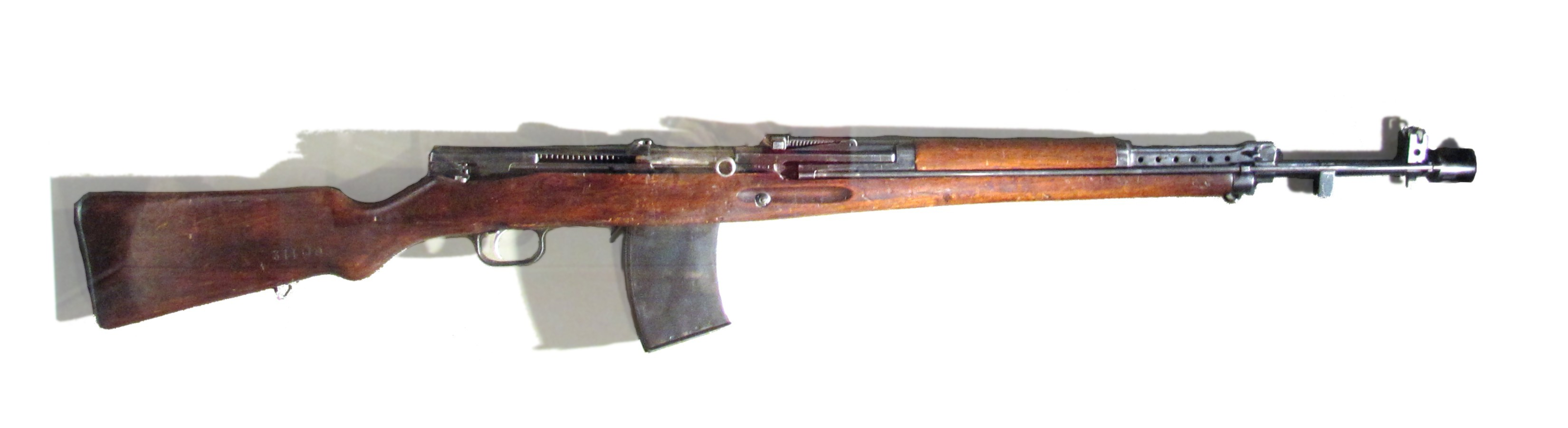 AVS-36 automatic rifle.